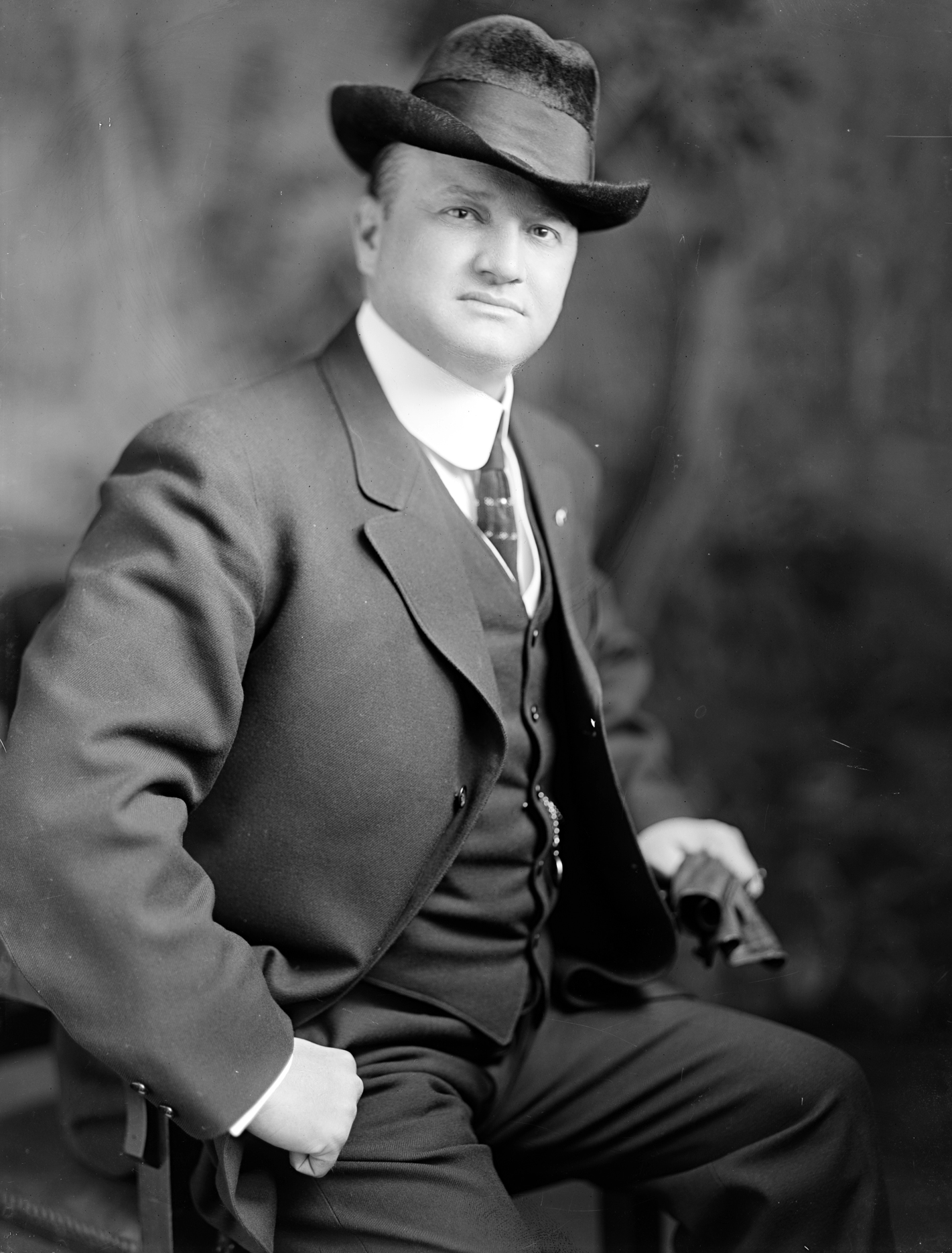 Charles Gordon Edwards, US Representative from Georgia